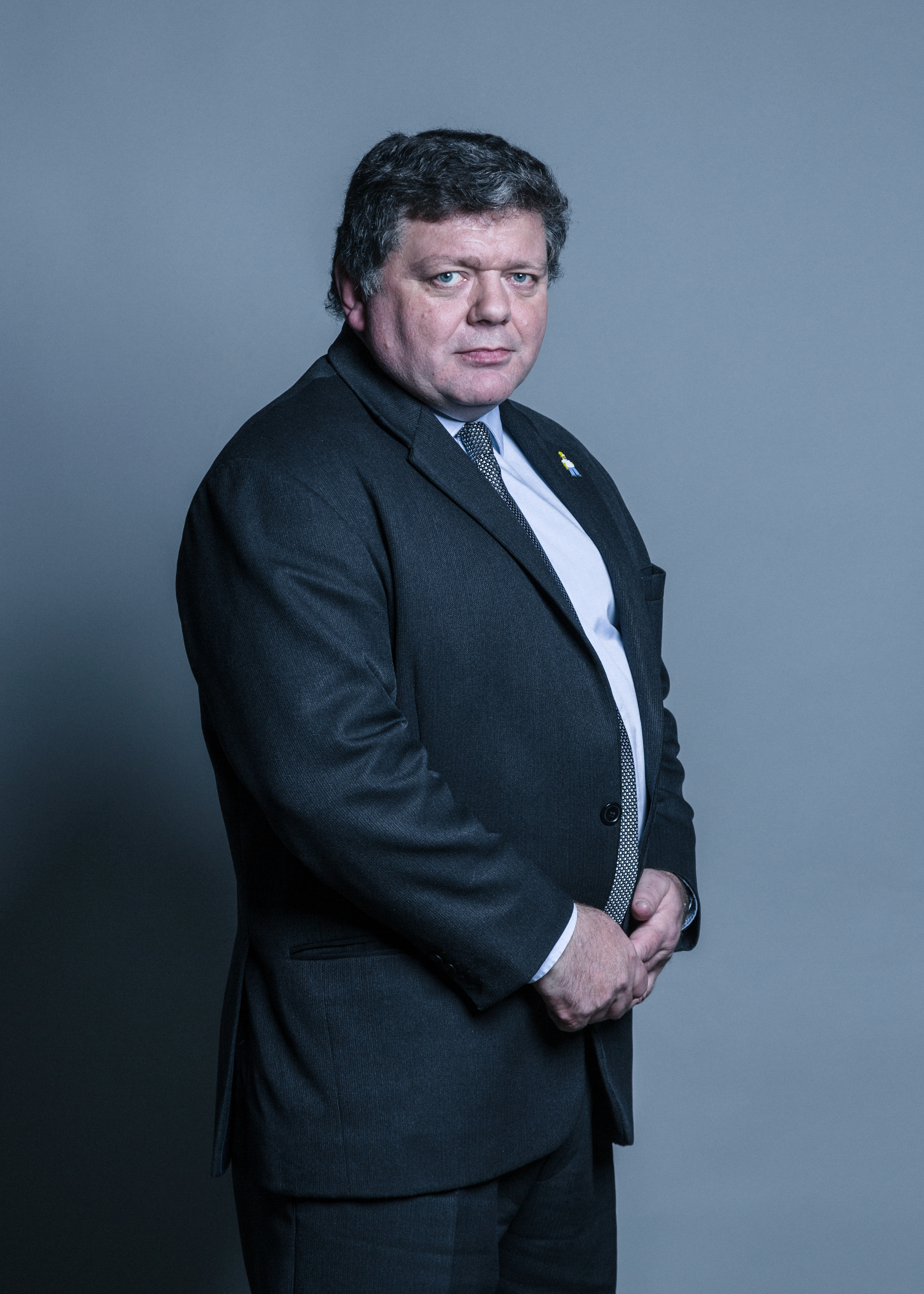 Official portrait of Lord Addington